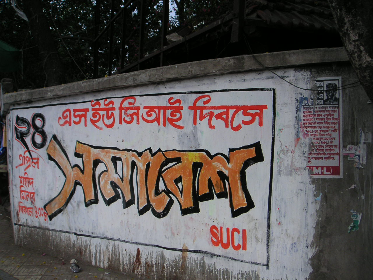 Socialist Unity Centre of India mural in Kolkata. Photo: Soman